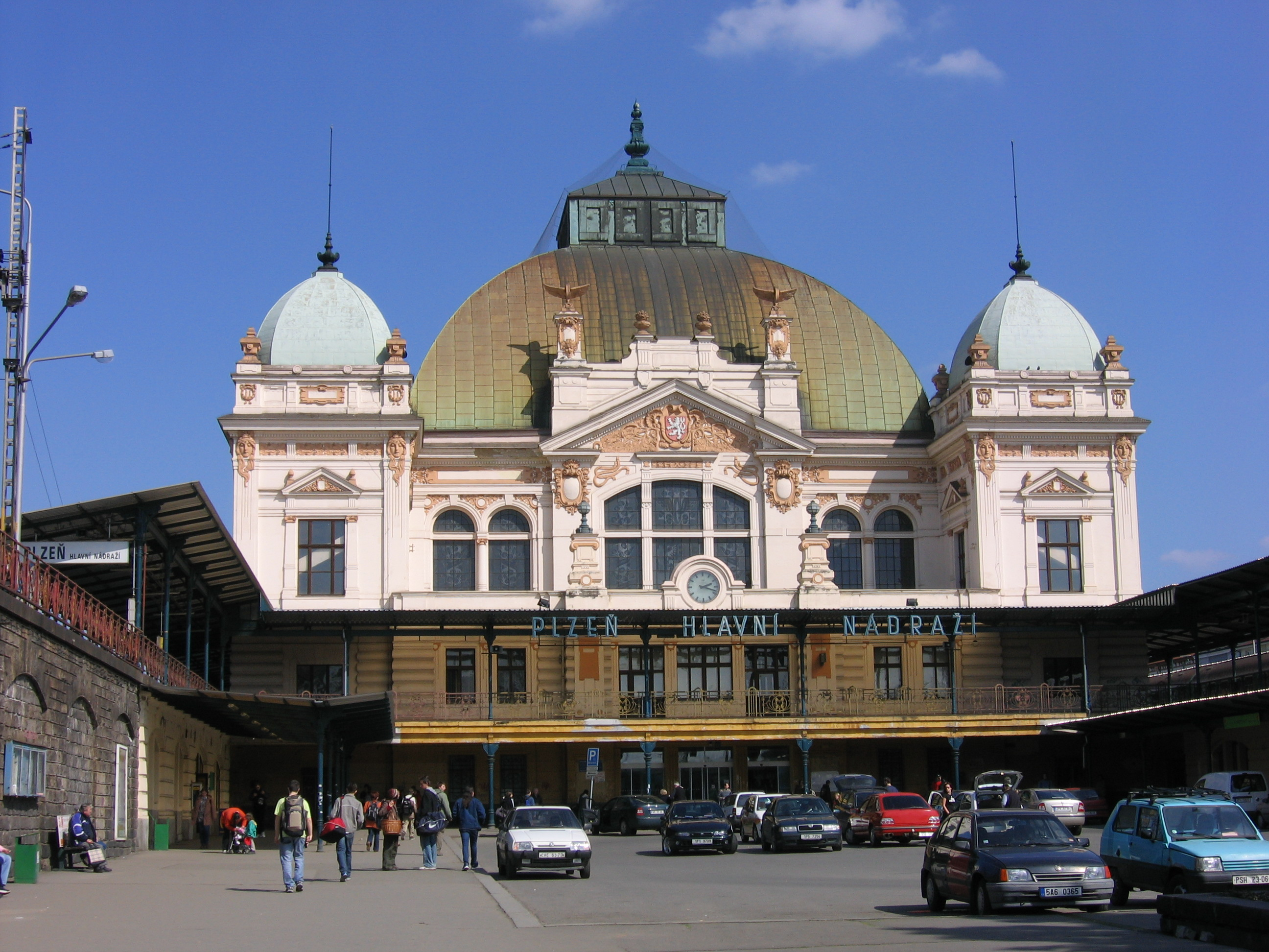 City of Plzeň, Czech Republic. Pilsen, Tschechien. Main train station (hlavni nadrazi).